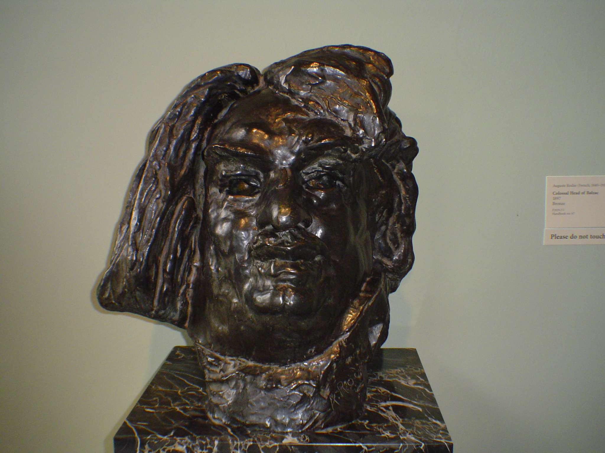 Rodin's Colossal Head of Balzac in bronze from 1897. This was a study for the monument to Balzac. Currently in the Rodin Museum in Philadelphia, Pennsylvania.